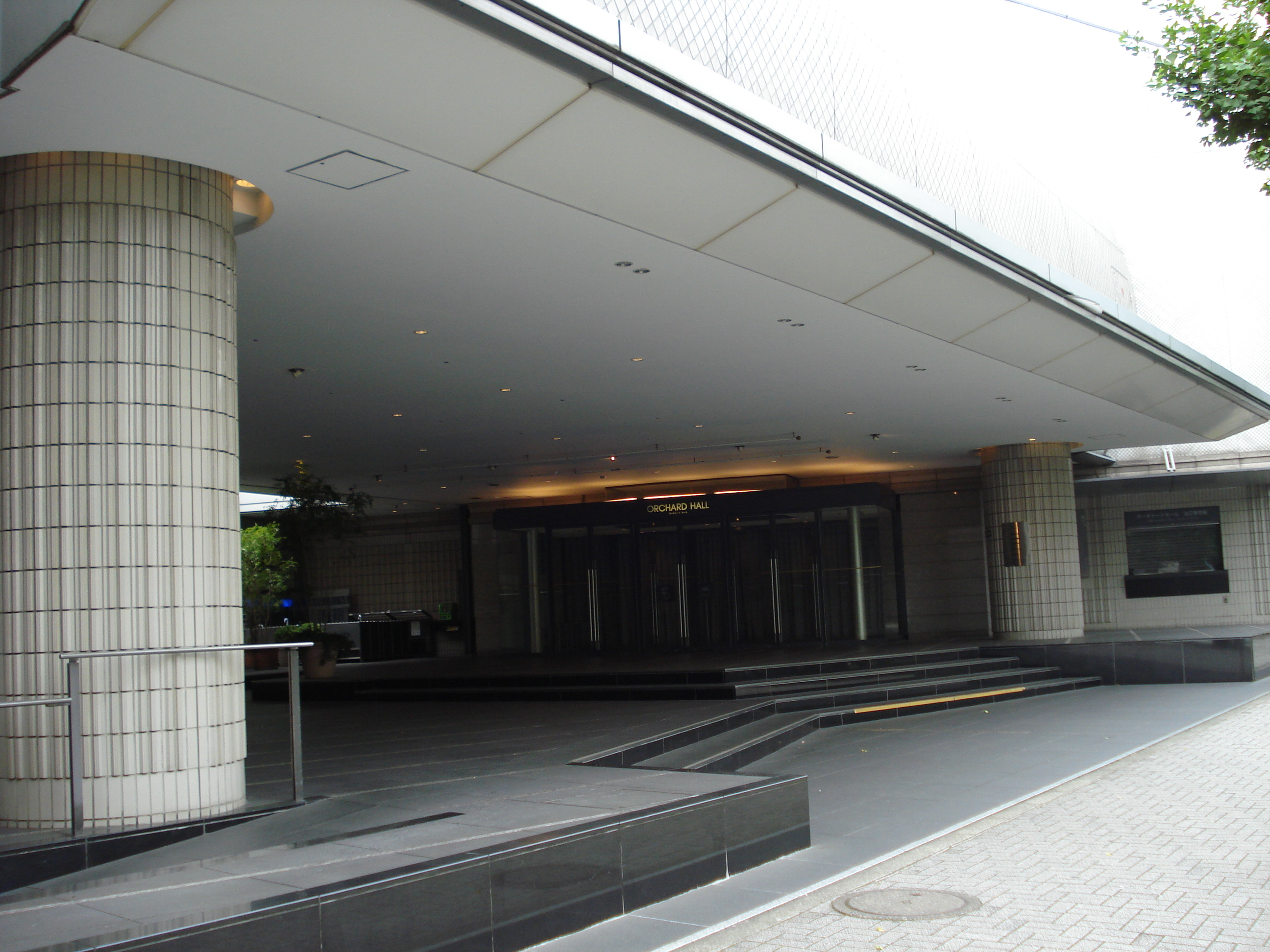 orchard hall